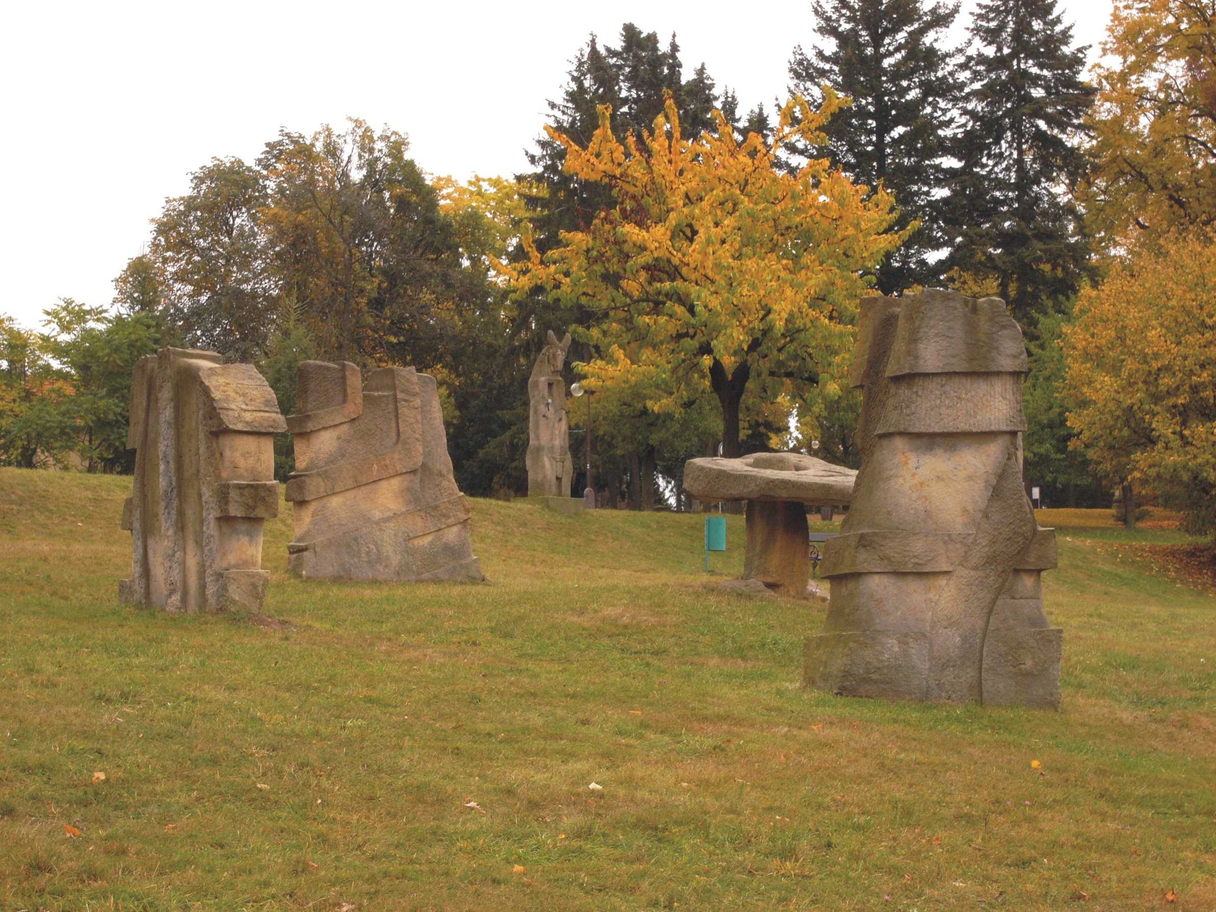 sculpture park of the St. Gothard hill in Hořice (Czech Republic)